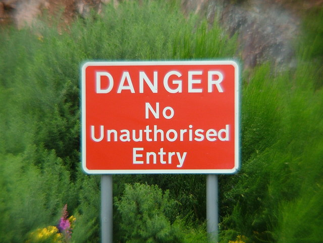 Sign at Loch Ness ... conspiracy theory?